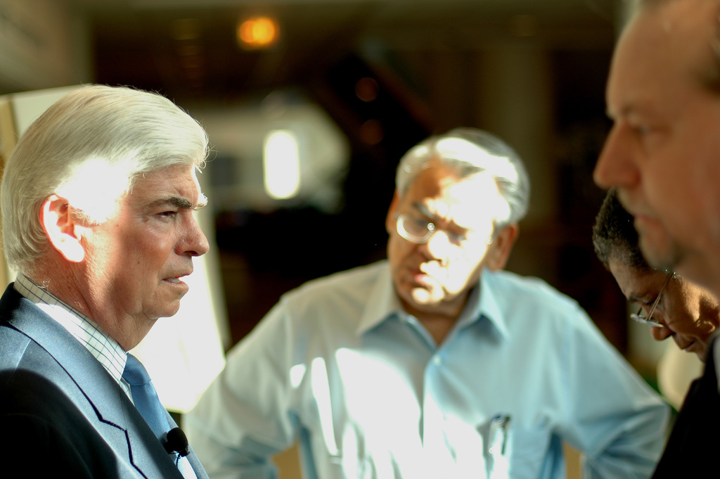 Christopher Dodd speaking at an SEIU event.